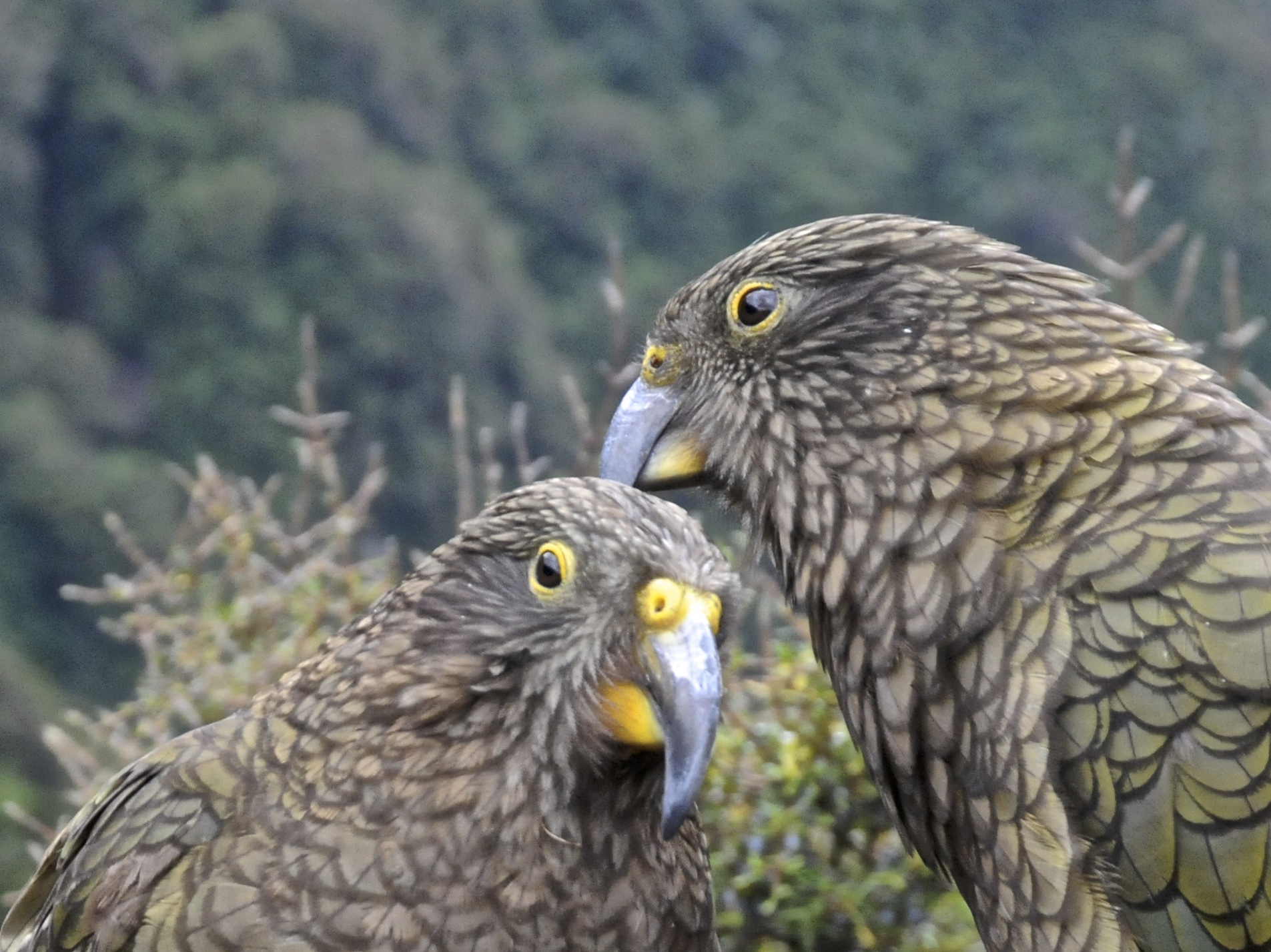 Kea (Red A) preens Kea (Green J)